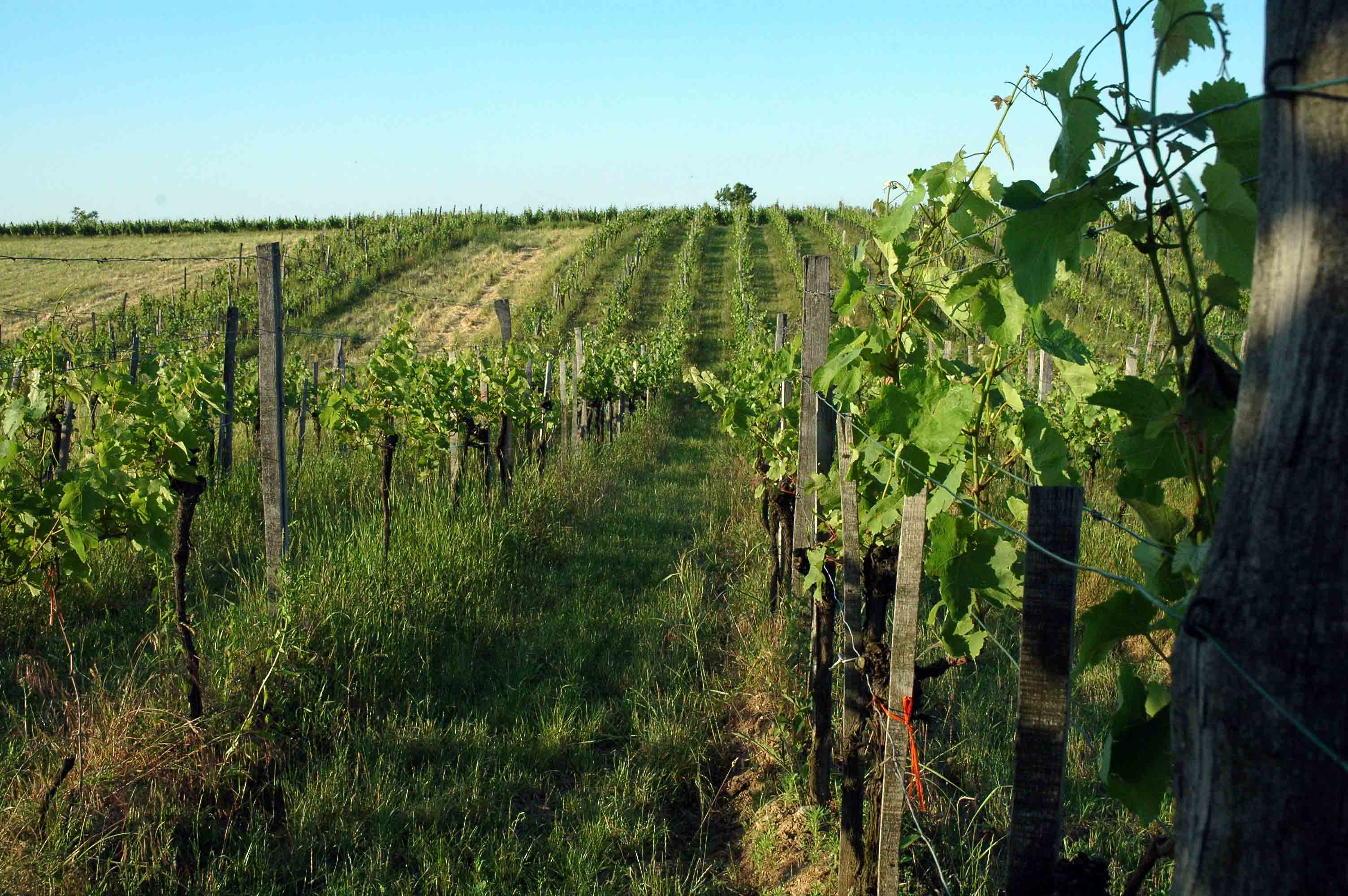 Neusiedlersee-Hügelland, vineyard, organic agricultural, Austria.